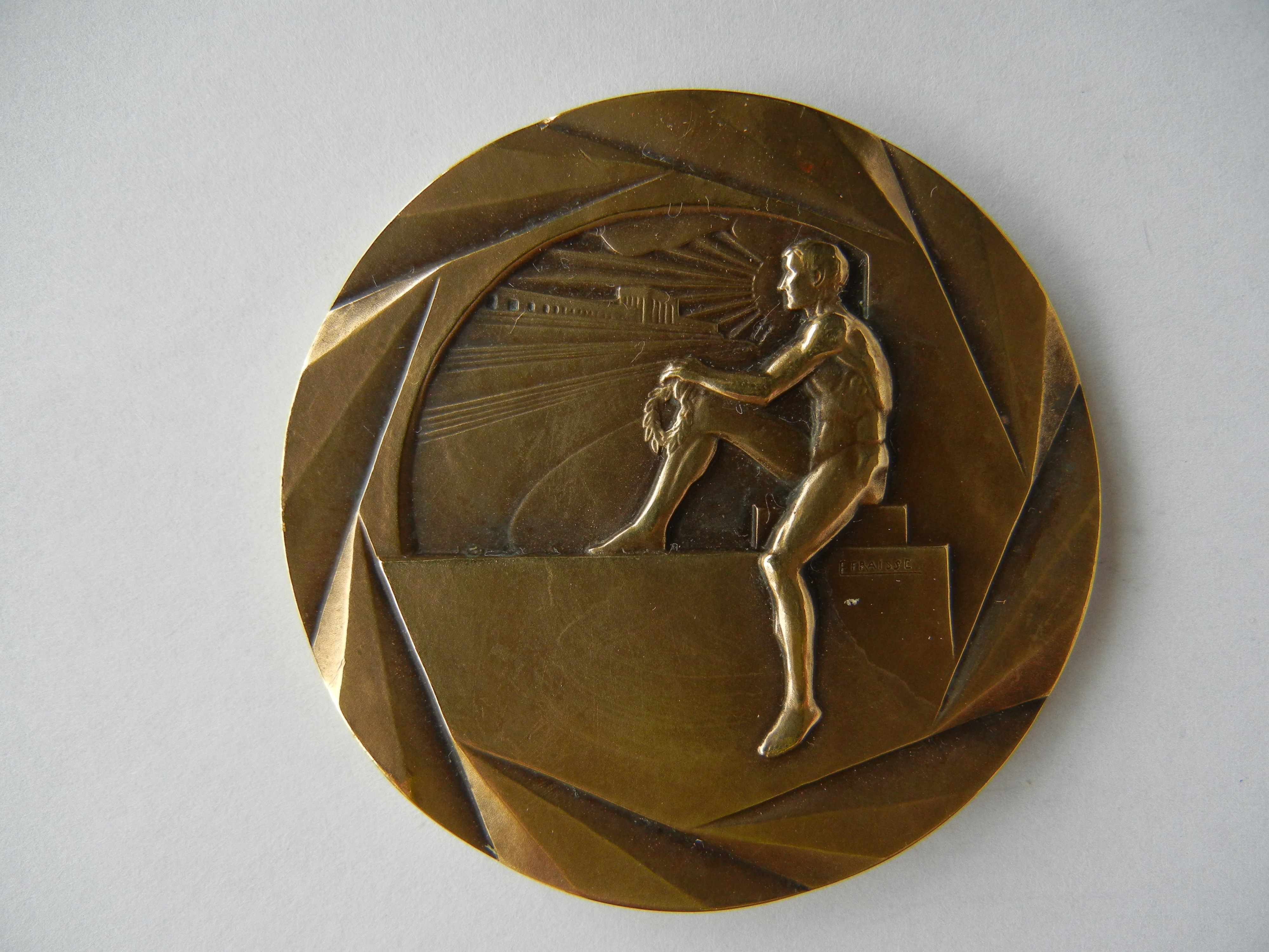 Art Deco bronze medal. The front Engraver Edouard Fraisse (1880-1945) Engraver of the back Henri Alfred Auguste Dubois (1859-1943)